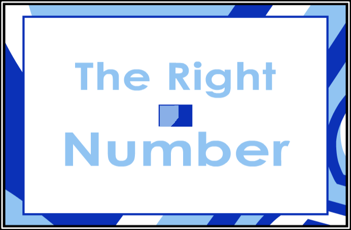 The title card of Scott McCloud's The Right Number, in the middle of a zooming in motion. The next panel of the webcomic is blurred out.